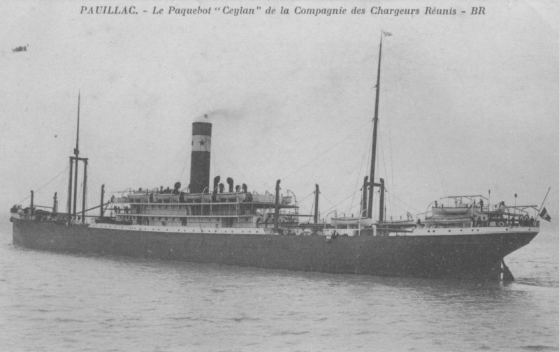 Chargeurs Réunis' 8,430 GRT passenger steamship Ceylan in the Gironde estuary at Pauillac. Swan, Hunter of Newcastle built her in 1907. She was scrapped in 1934.